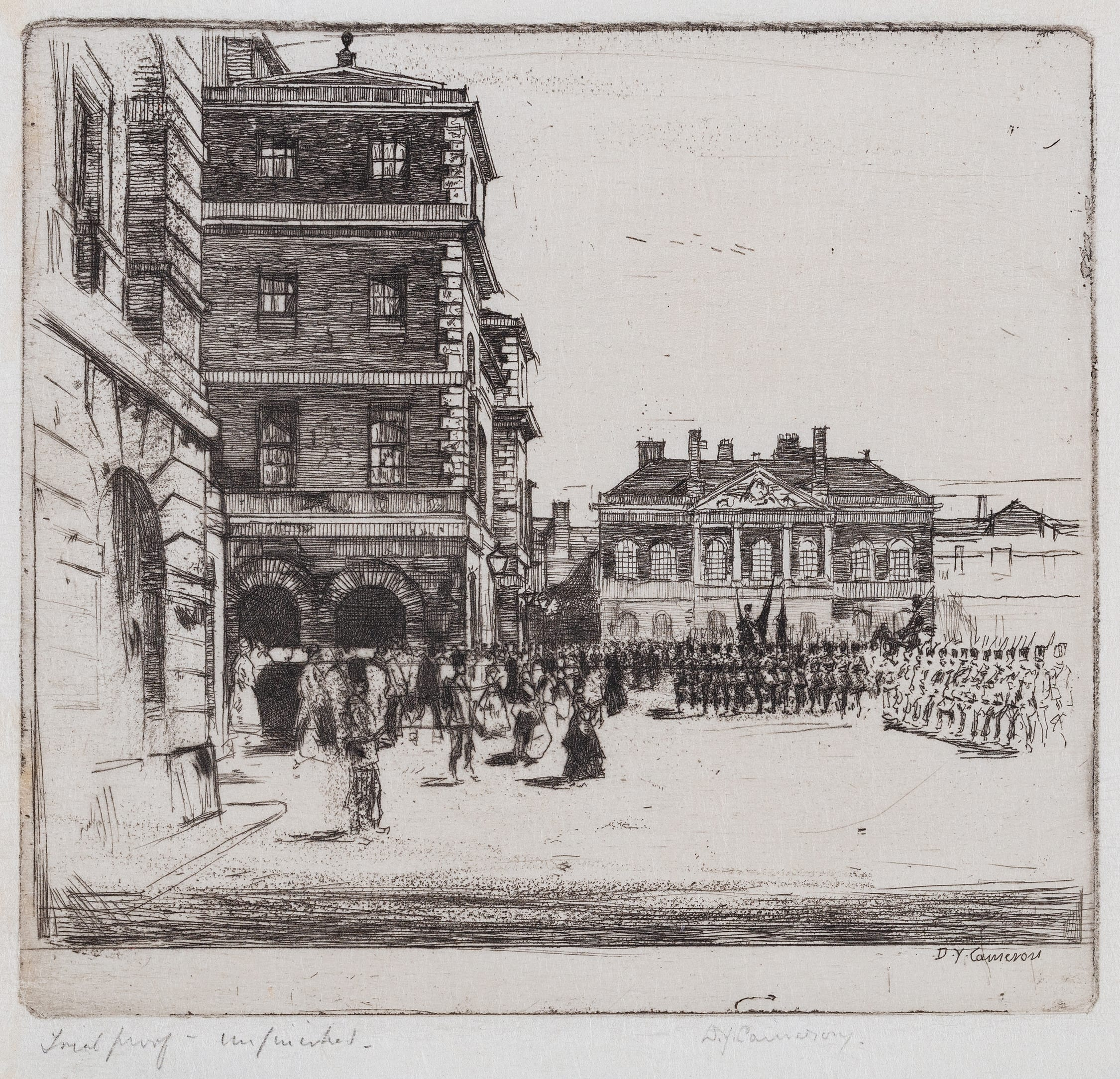 Offered for sale by Abbott and Holder in March 2020 when it was described as "‘Horse Guards, St James’s Park’ Etching. Signed and inscribed ‘Trial Proof – unfinished’. Inscribed verso. 4.5x4.75 inches."